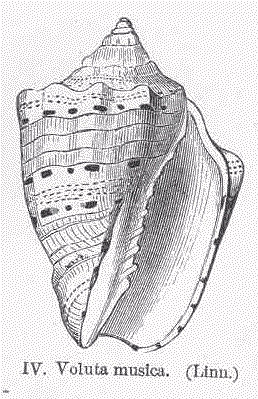 Voluta musica (Linn.) Subject: Volutidae, Voluta Tag: Mollusks